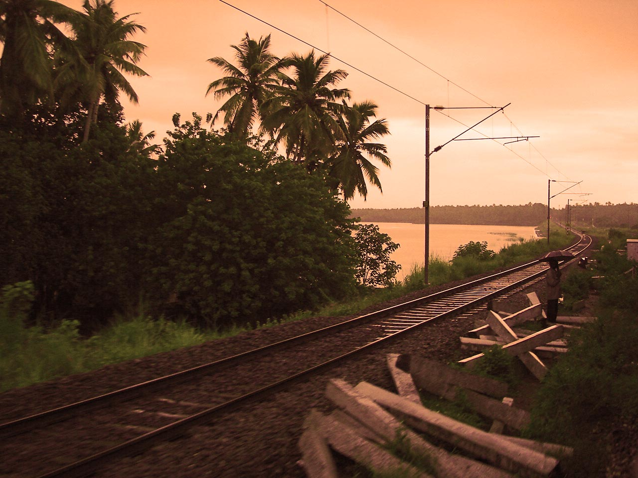 A serene view of the backwaters and railtracks near Kollam, India.